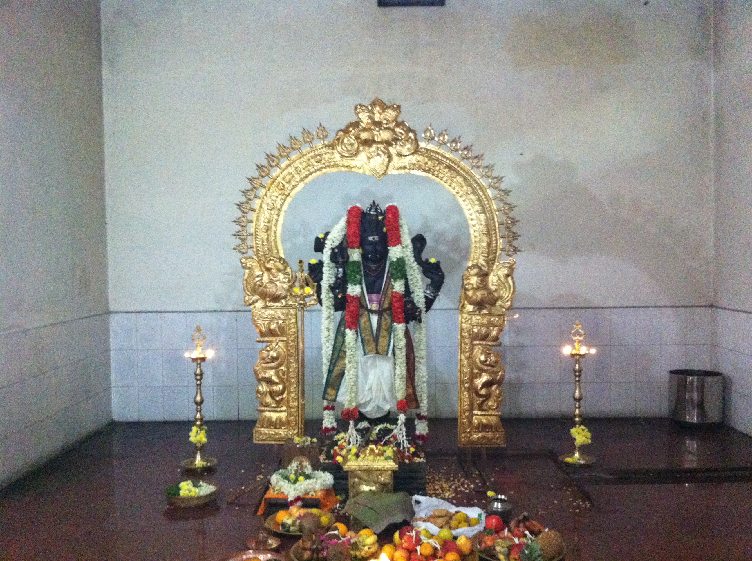 Sri SwarnaKala Bhairavar